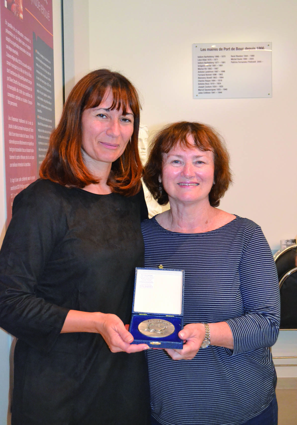 Port-de-Bouc-1